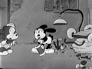 Screenshot from The Bandmaster, a 1931 Walter Lantz cartoon.